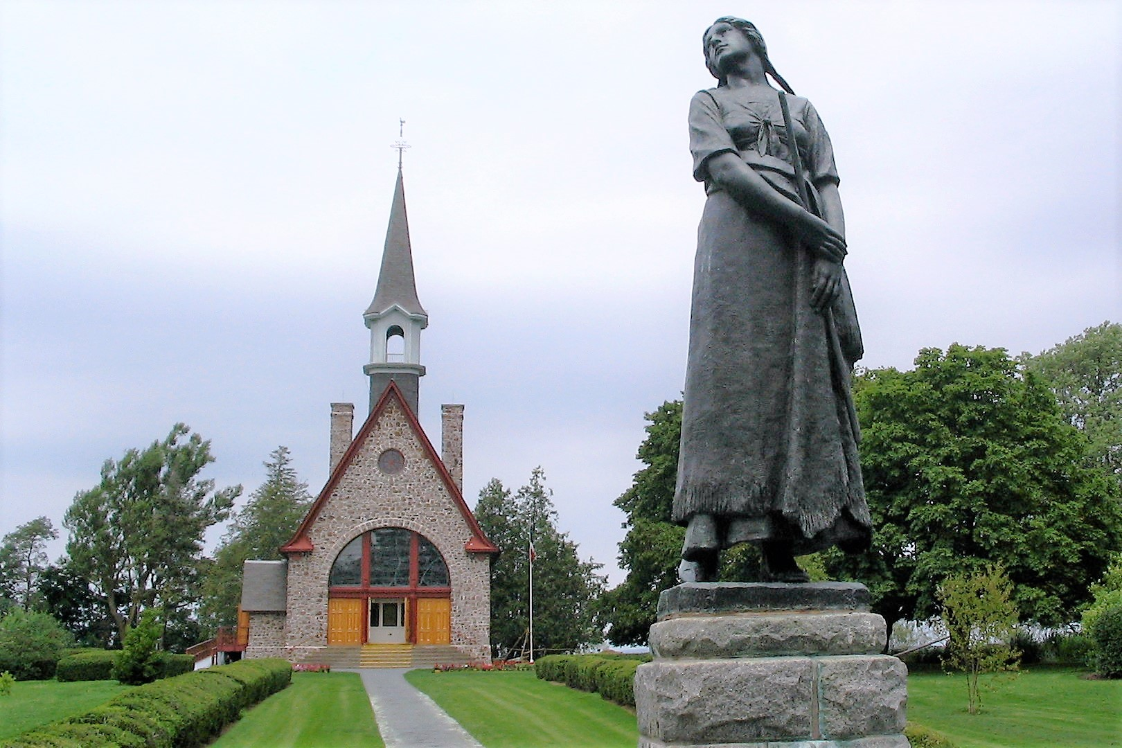 Grand Pré memorial church and statue of Évangeline.